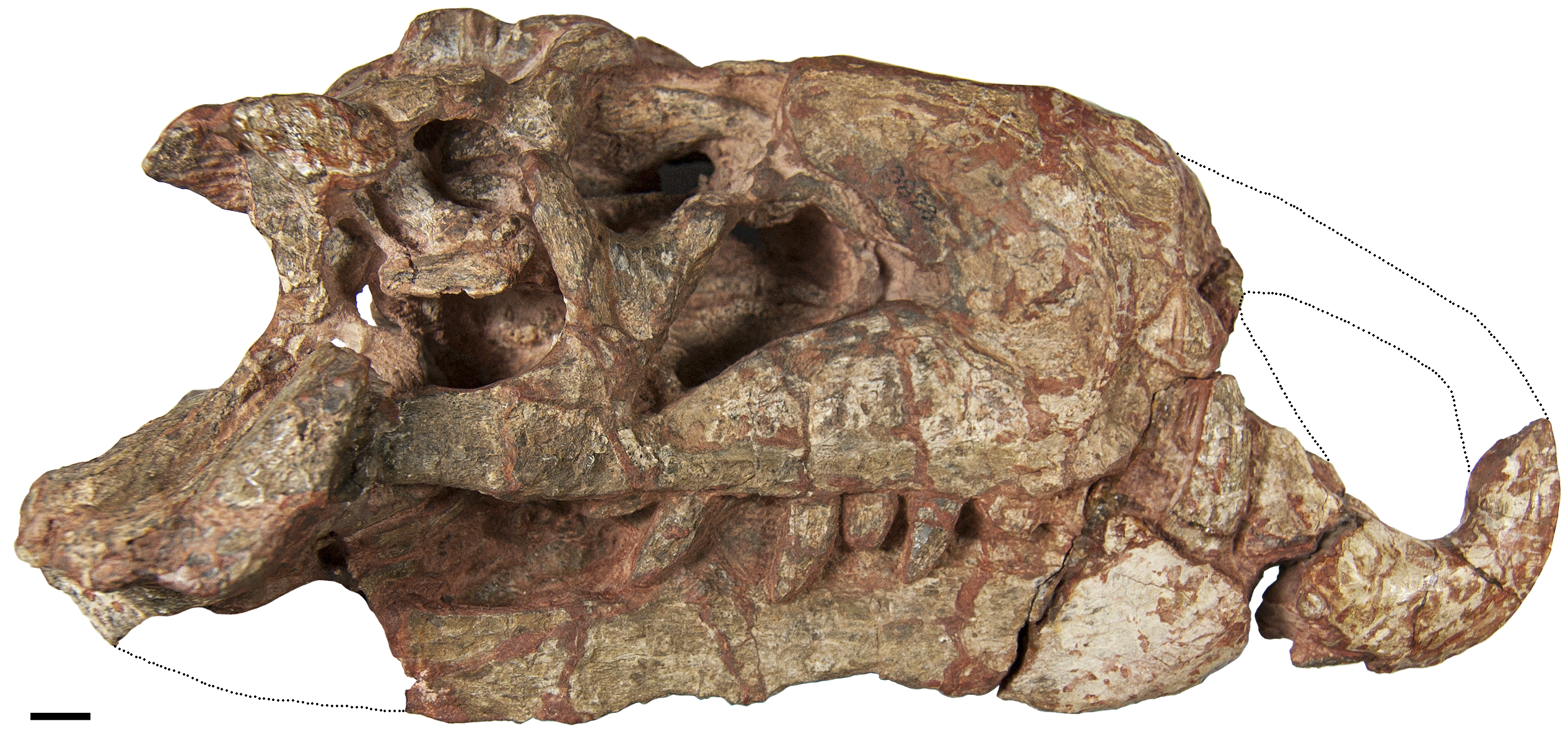 Skull of Riojasuchus tenuisceps in right lateral view. Referred specimen PVL 3828.